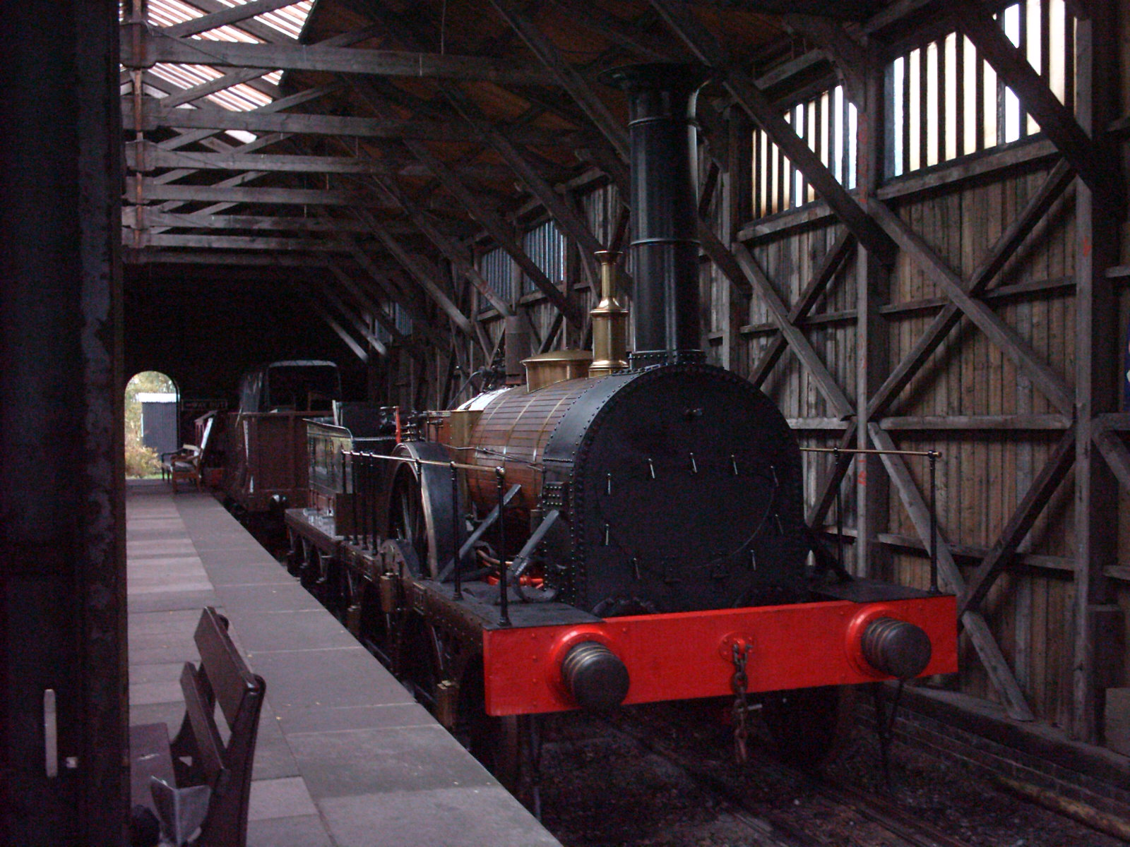 firefly at didcot railway centre. Taken by Rob Neild in 2005.